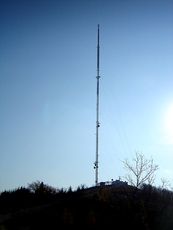 Broadcasting CKCO's channel 13 to Southwestern Ontario